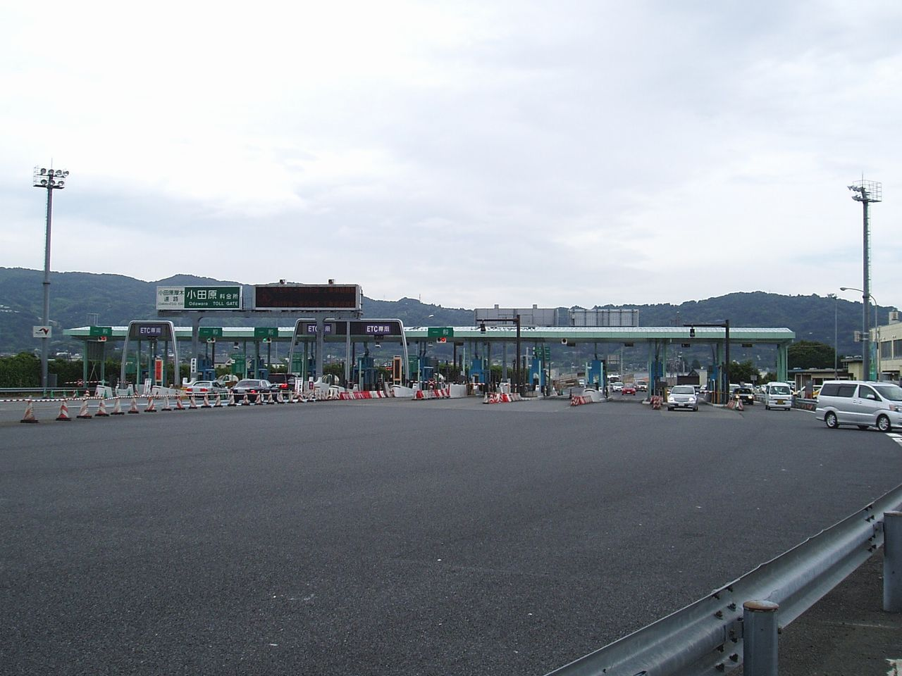 Odawara Toll Gate, Route 271 in Japan